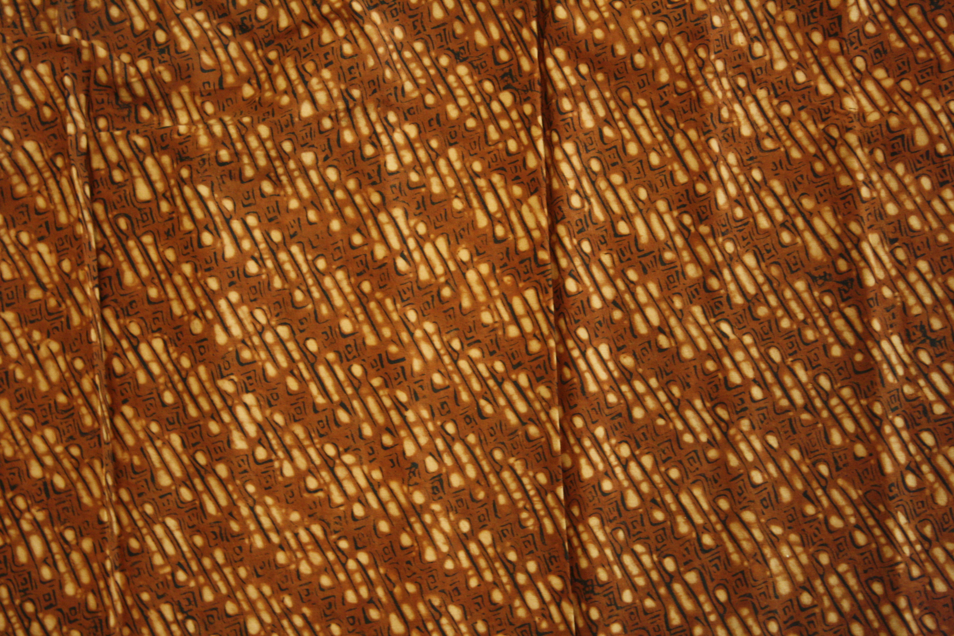 Contemporary inland batik from Solo, Indonesia, with parang klithik pattern.